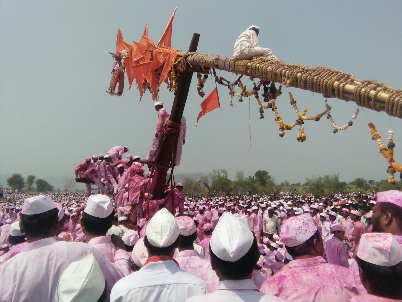 बावधान बगाड यात्रा